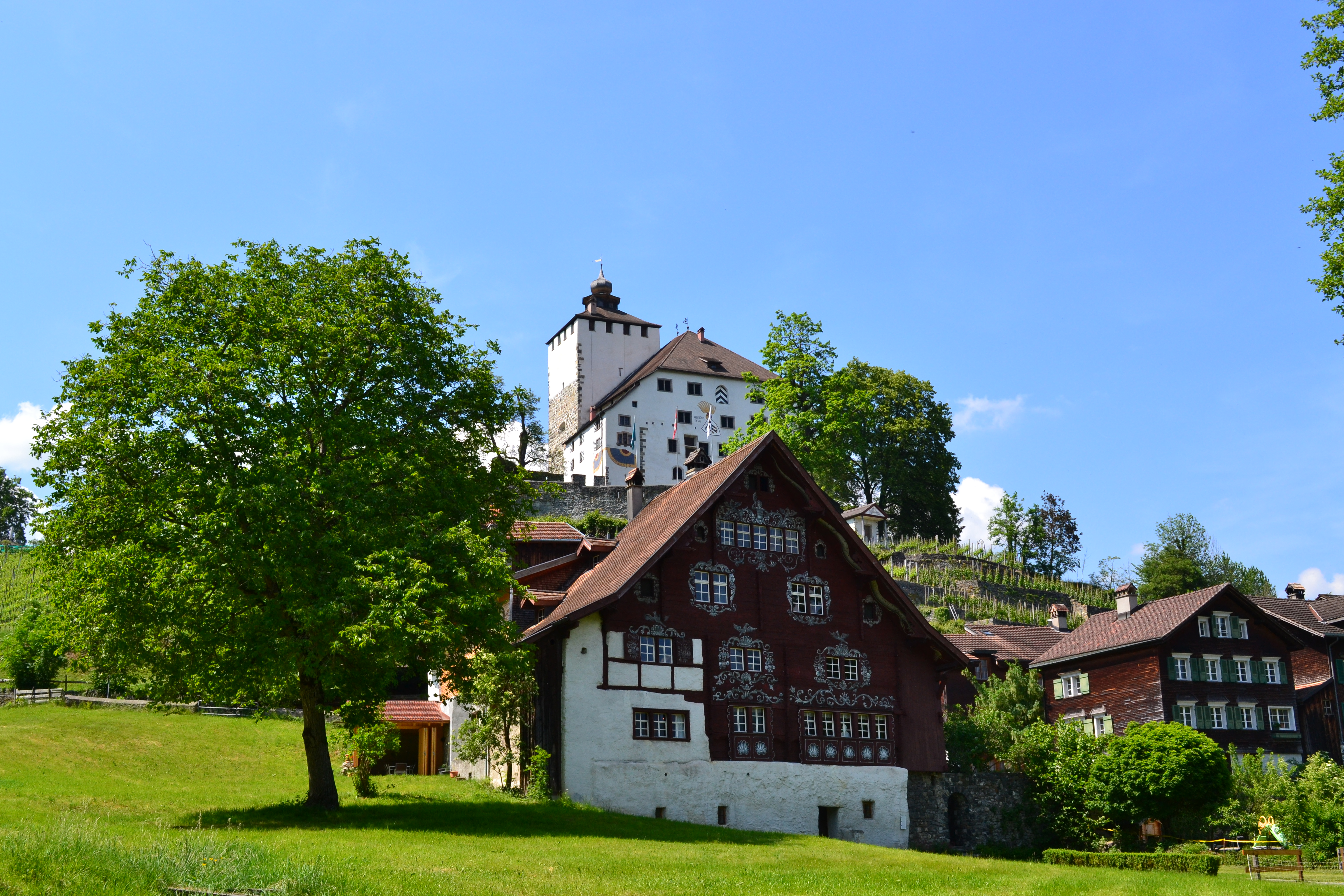 Snake House and Castle Werdenberg